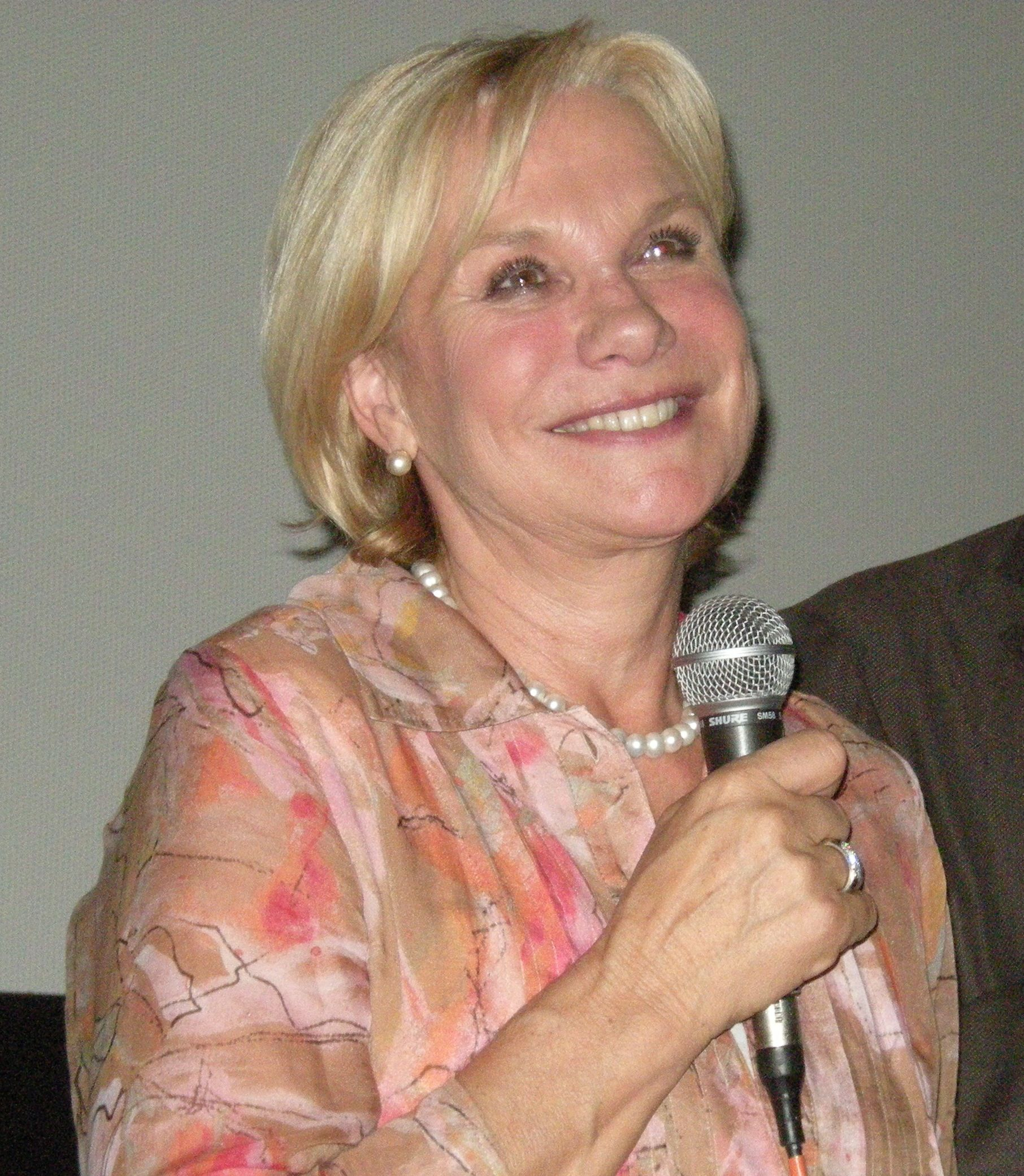 Monique van de Ven attending a showing of her film Zomerhitte (Summer Heat), Seattle International Film Festival, Seattle, Washington, Seattle, Washington.